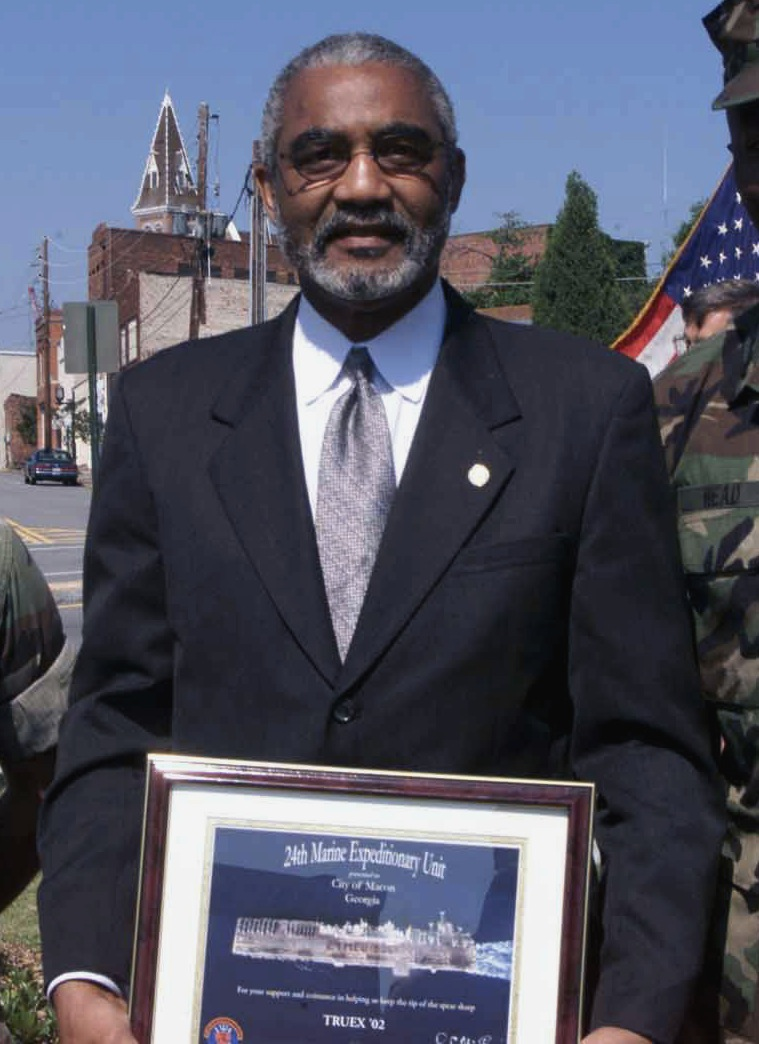 "US Marine Corps (USMC) Sergeant (SGT) Joshua M. Evers, 24th Marine Expeditionary Unit (MEU) and GUNNERY Sergeant (SGT) Michael Head, Marine Medium Helicopter Squadron 263 (HMM-263), 24th Marine Expeditionary Unit (MEU) pose with the Honorable Mr. C. Jack Ellis, Mayor of Macon, Georgia"